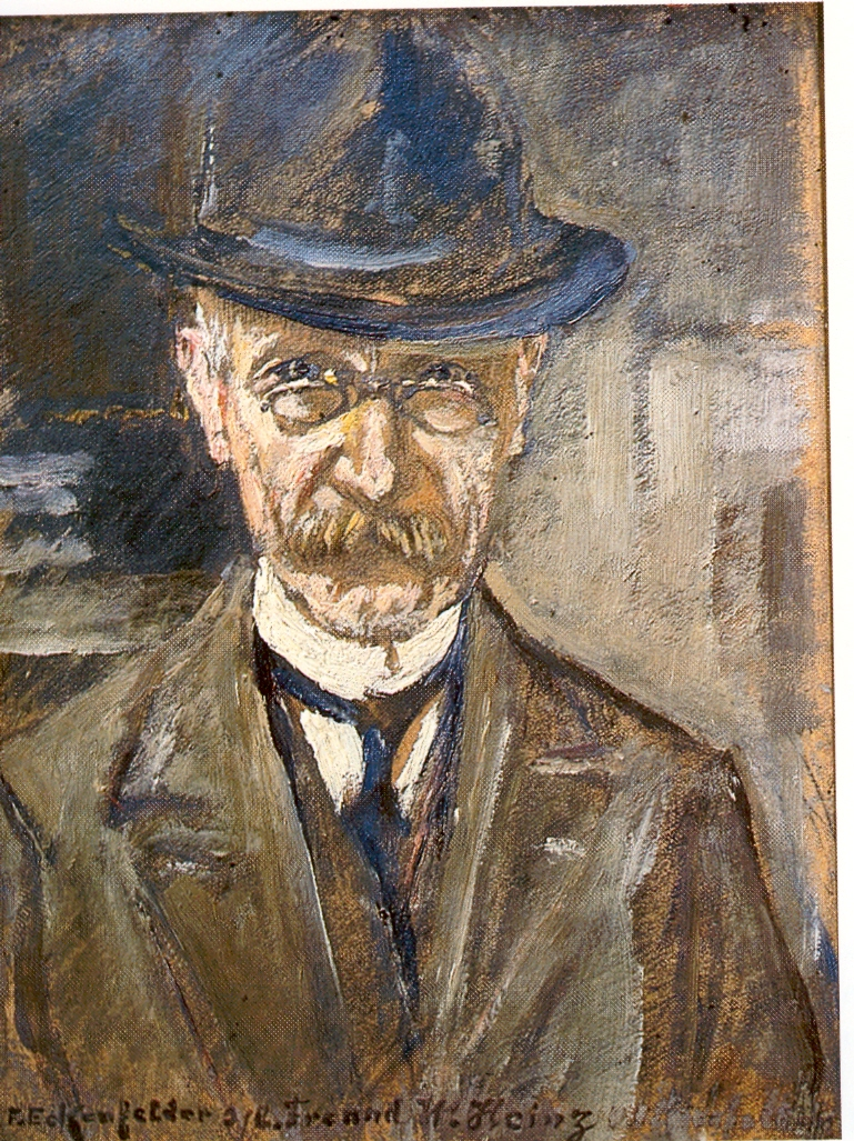 Self portrait of Friedrich Eckenfelder Öl/Pappe 21*15 cm Privat